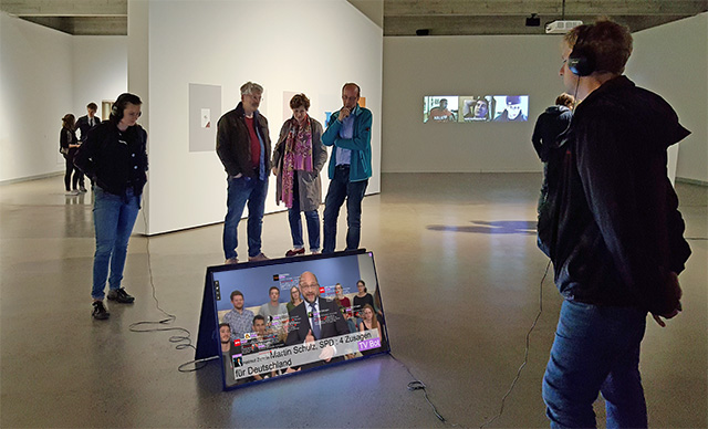 The TV Bot is an Internet news channel which only broadcasts brand new stories. Never more than an hour old, they are scooped from the Internet’s news flux, reformatted for a browser and given a URL. The process is automated, with no editorial hand behind the content selection which is reproduced in apparently random order as live TV streams, live radio streams, webcam images and text-based headlines. The only criterion that matters is “liveness”. In its graphical representation, TV Bot makes obvious reference to well-known international TV broadcasters like CNN and n-tv. By being more live than these TV channels, Marc Lee interrogates the informativeness of broadcasters that are permanently oriented to up-to-dateness and audience numbers. The Swiss media artist, who also works with installation, largely focuses on the Internet and its structures. Also active as a software developer, Lee breaks open the mechanisms of the World Wide Web, revealing them to ordinary users and enabling critical reflection. The TV Bot is an ironic challenge to our media society’s “real time” dogma.